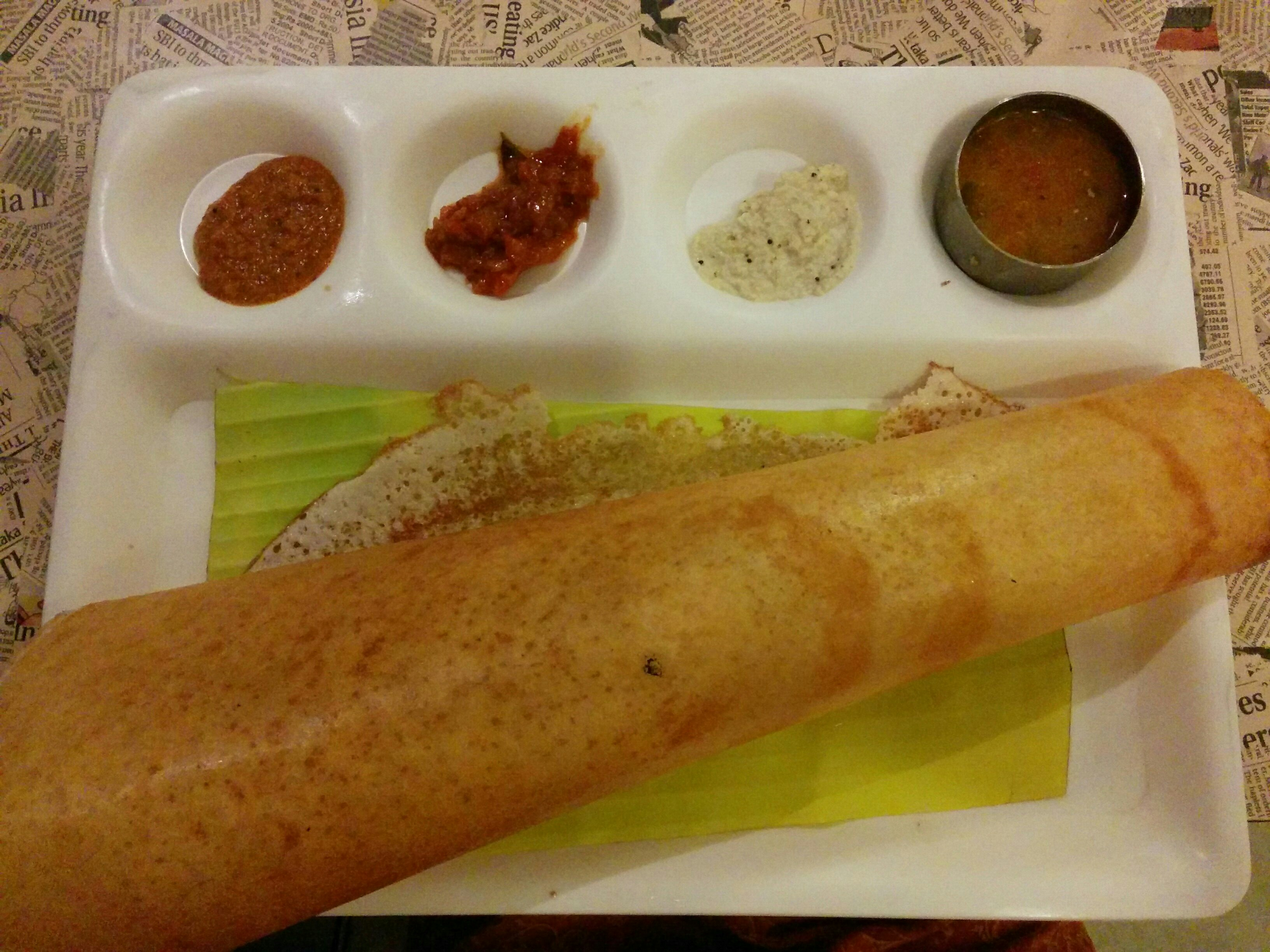 Crispy Butter Plain Dosa served with sambhar and 3 types of chutneys at Surguru Hotel, Pondicherry